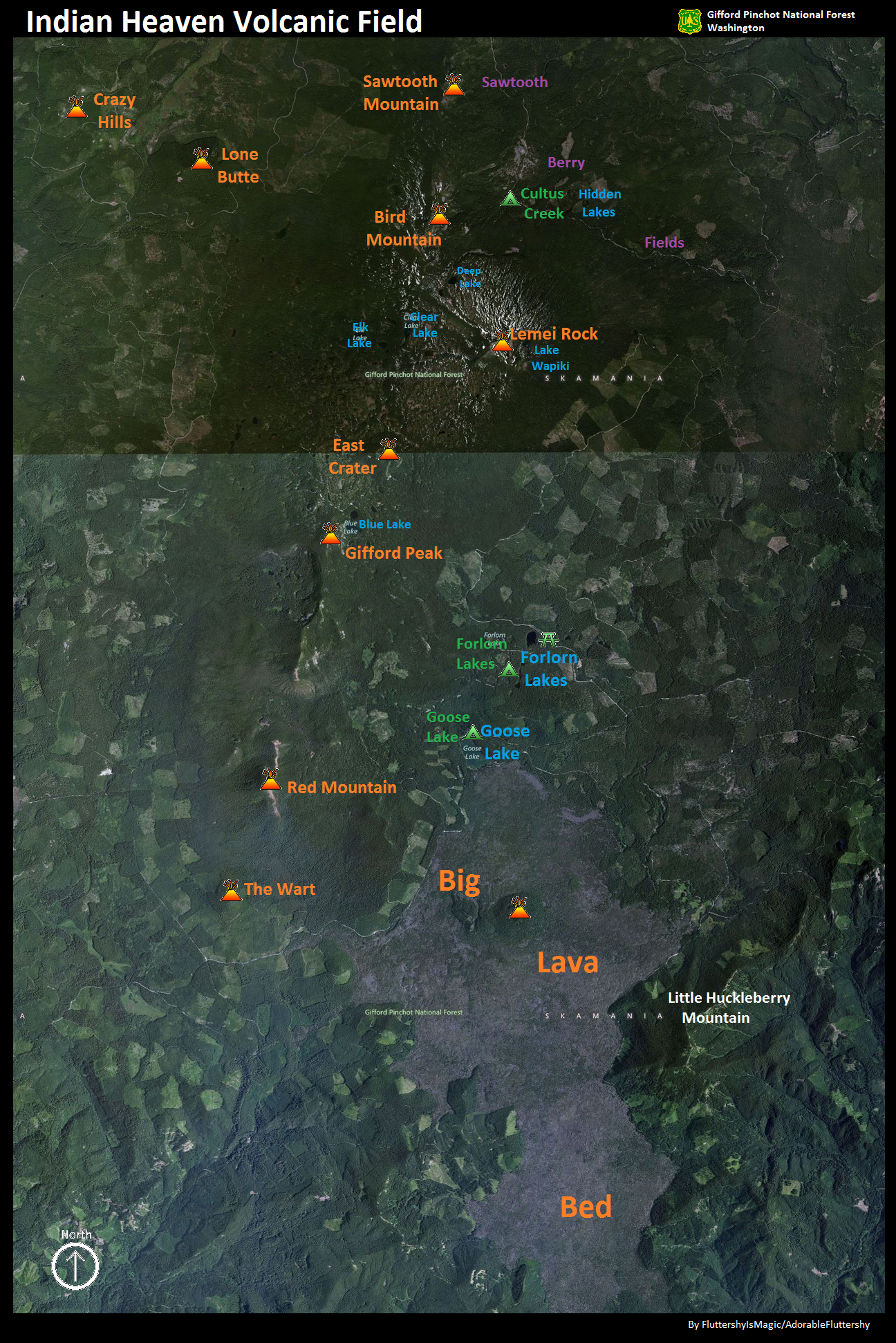 Satellite map showing the various shield volcanoes topped by cinder and spatter cones that characterizes the Indian Heaven Volcanic Field, as well as the South Cascades.